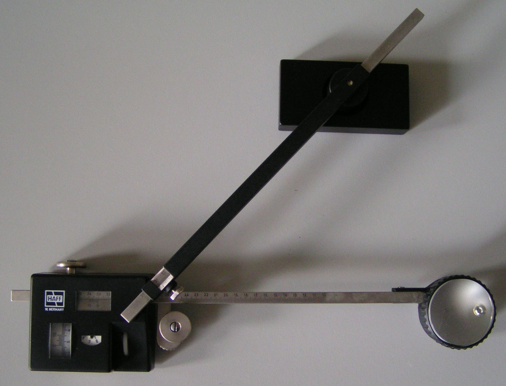 Planimeter